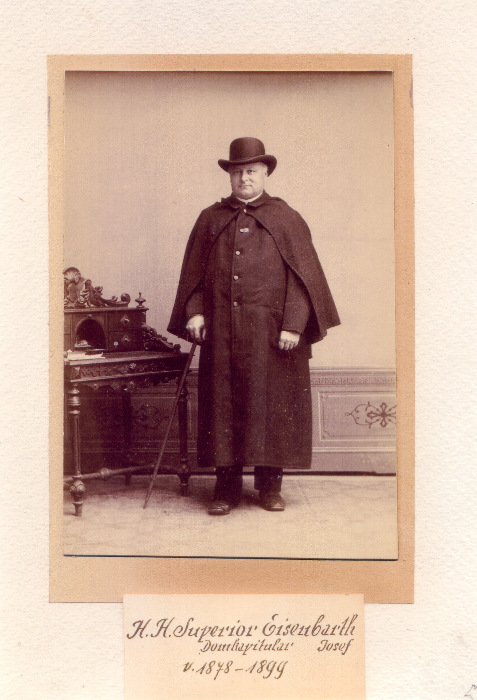 Superior Joseph Eisenbarth (1844-1913)